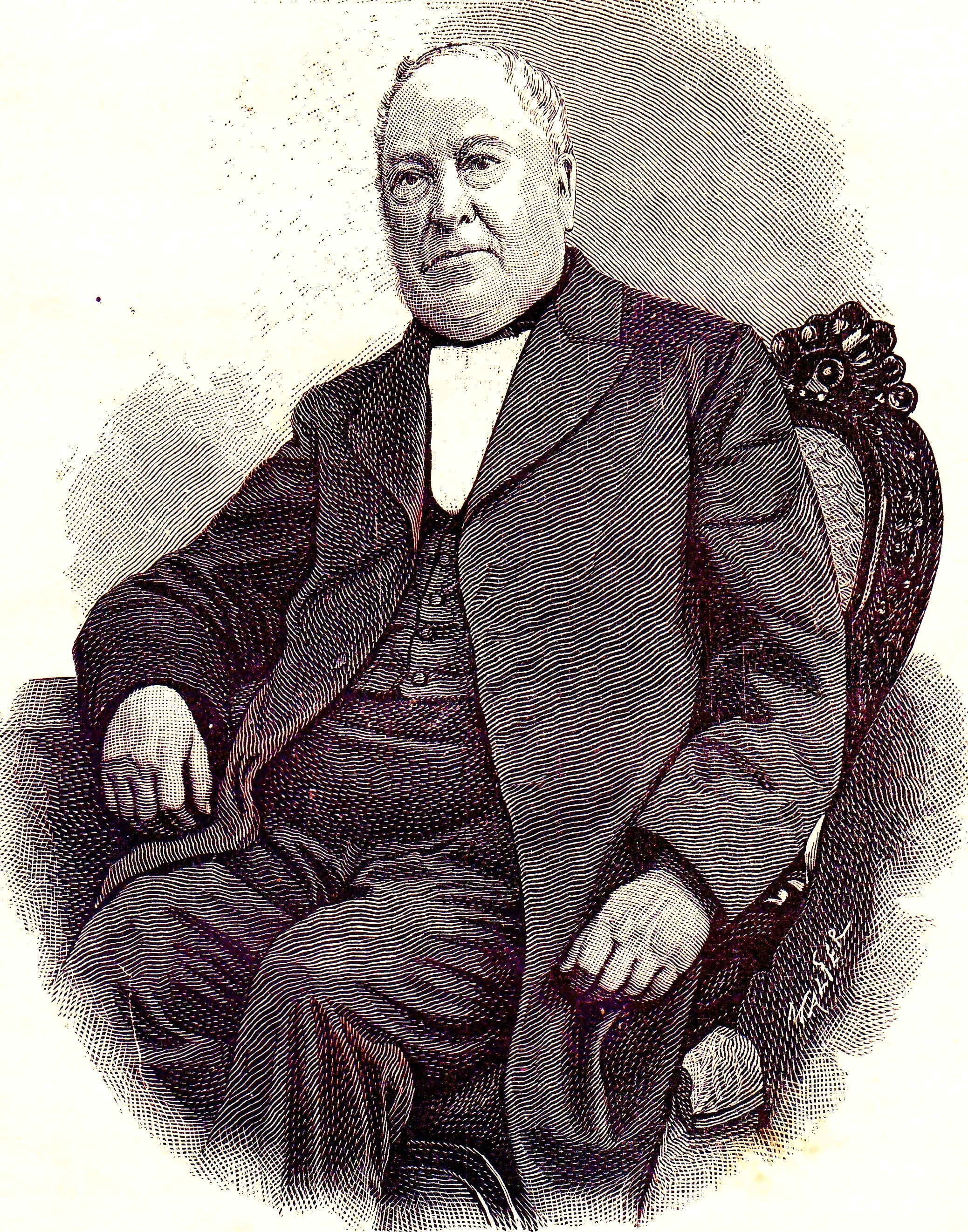 Dr. Jacob Gijsbert de Hoop Scheffer